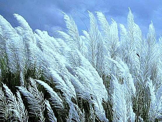 Kash Phul - Saccharum spontaneum